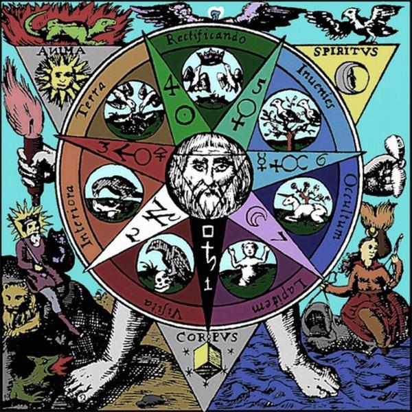 Anagrammatical, alchemical figure representing "Vitriol", from Stolzius von Stolzembuirg, Theatrum Chymicum, 1614.